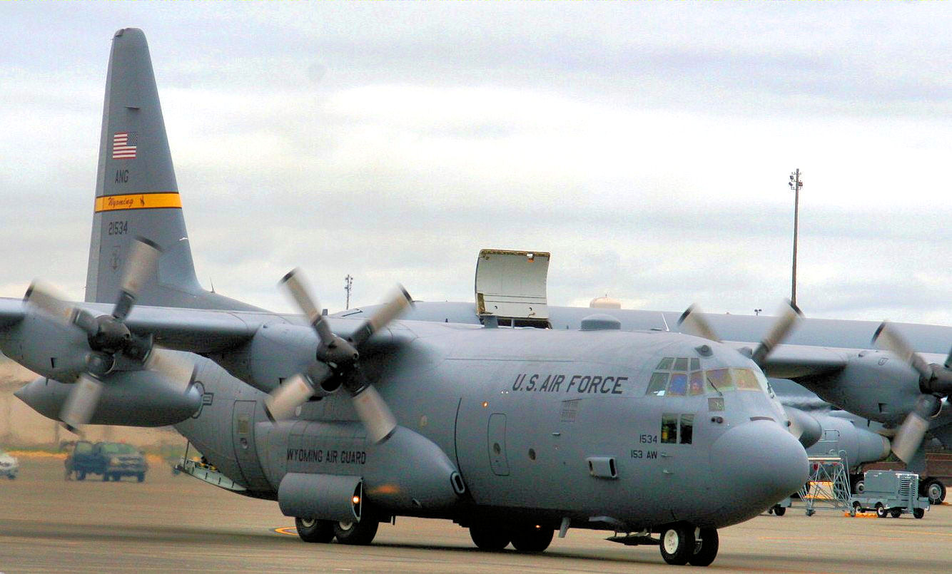 A C-130 Hercules from the Wyoming Air National Guard's 153rd Airlift Wing at Cheyenne departs for a competition mission in Air Mobility RODEO 2009 July 23 at McChord Air Force Base, Wash. (U.S. Air Force Photo/Tech. Sgt. Scott T. Sturkol)